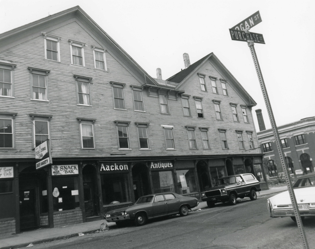 Bradford Smith Building, New Bedford, Massachusetts. Building has been demolished.